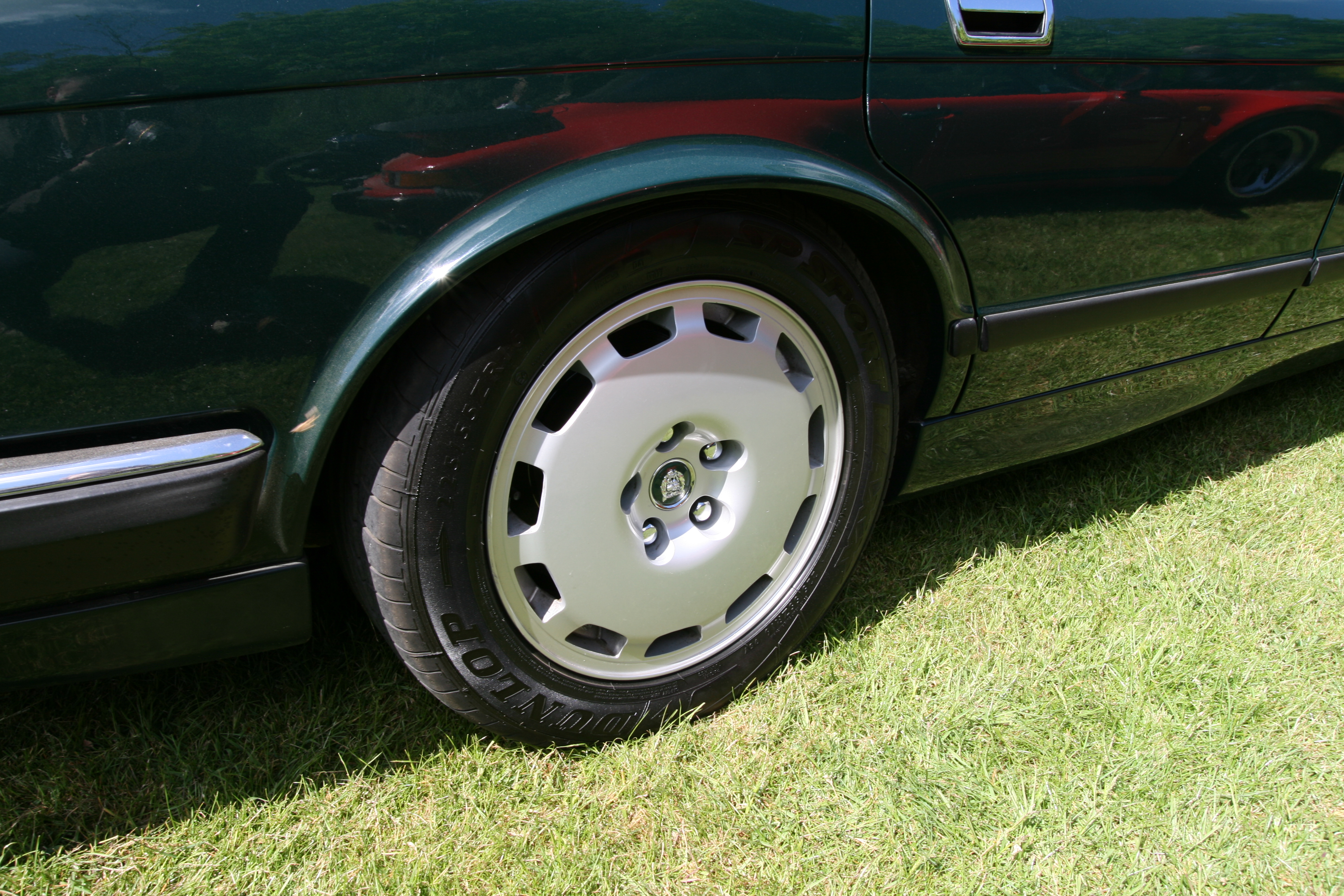 Close-up view of the JaguarSport alloy wheels found on the late-model XJ40 variant of the Jaguar XJR. This vehicle is a 1993 XJR parked at the Sofiero Classic car show at Sofiero castle in Helsingborg, Sweden.